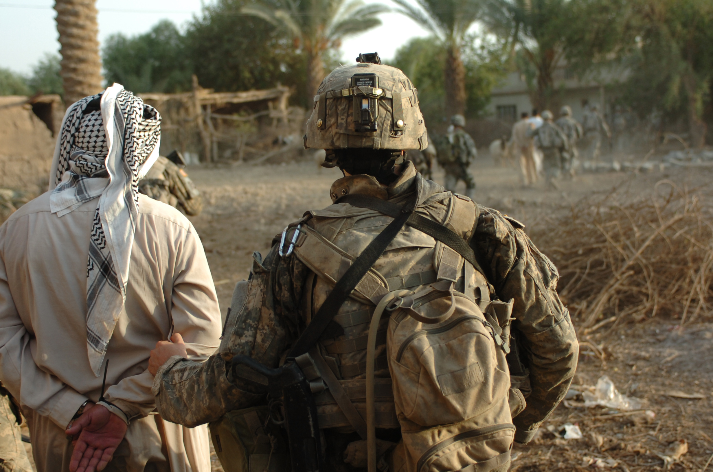 VIRIN: 071012-A-7670D-384 Location: Arab Jabour, IQ A Soldier of Company A, 1st Battalion, 30th Infantry Regiment escorts a detainee after conducting a daytime air assault targeting al-Qaida leaders during Operation Benelli in Arab Jabour, Oct. 12. Associated News: Surge Soldiers Revel in Successful Operation